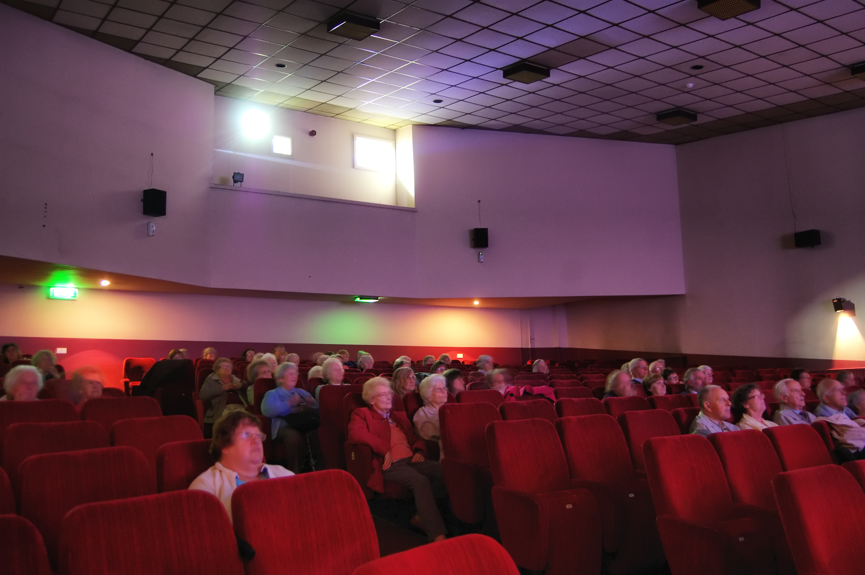 The Silver Screen: Keighley Picture house plays host to an airing of the vintage Hollywood classic "Singing in The Rain" as part of Older Peoples' Week 2010, organised by Strategic Development Officer Nagina Javaid. You can find more images taken behind the scenes of the Picture House online in this set of photographs.